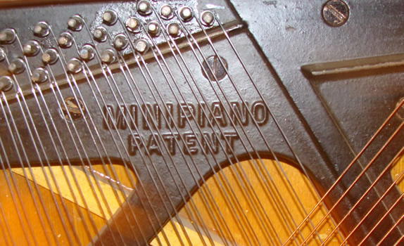 Only after removing the braceless back and the rack of metal rods is the MINIPIANO PATENT clearly viewable on the metal soundboard of the instrument.